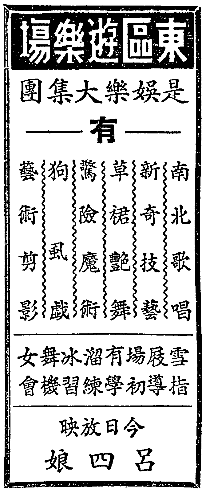 Advertisement of Eastern Playground(東區遊樂場) from Paage 2 of Hong Kong "Ta Kung Pao" Newspaper (1st July, 1940, Monday)